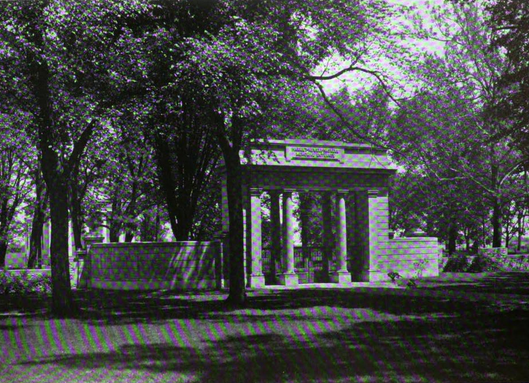 Monticello Seminary - Haskell Memorial Entrance (named for Harriet Newell Haskell)